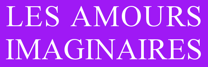 Logo from the film Les Amours Imaginaires (Heartbeats)